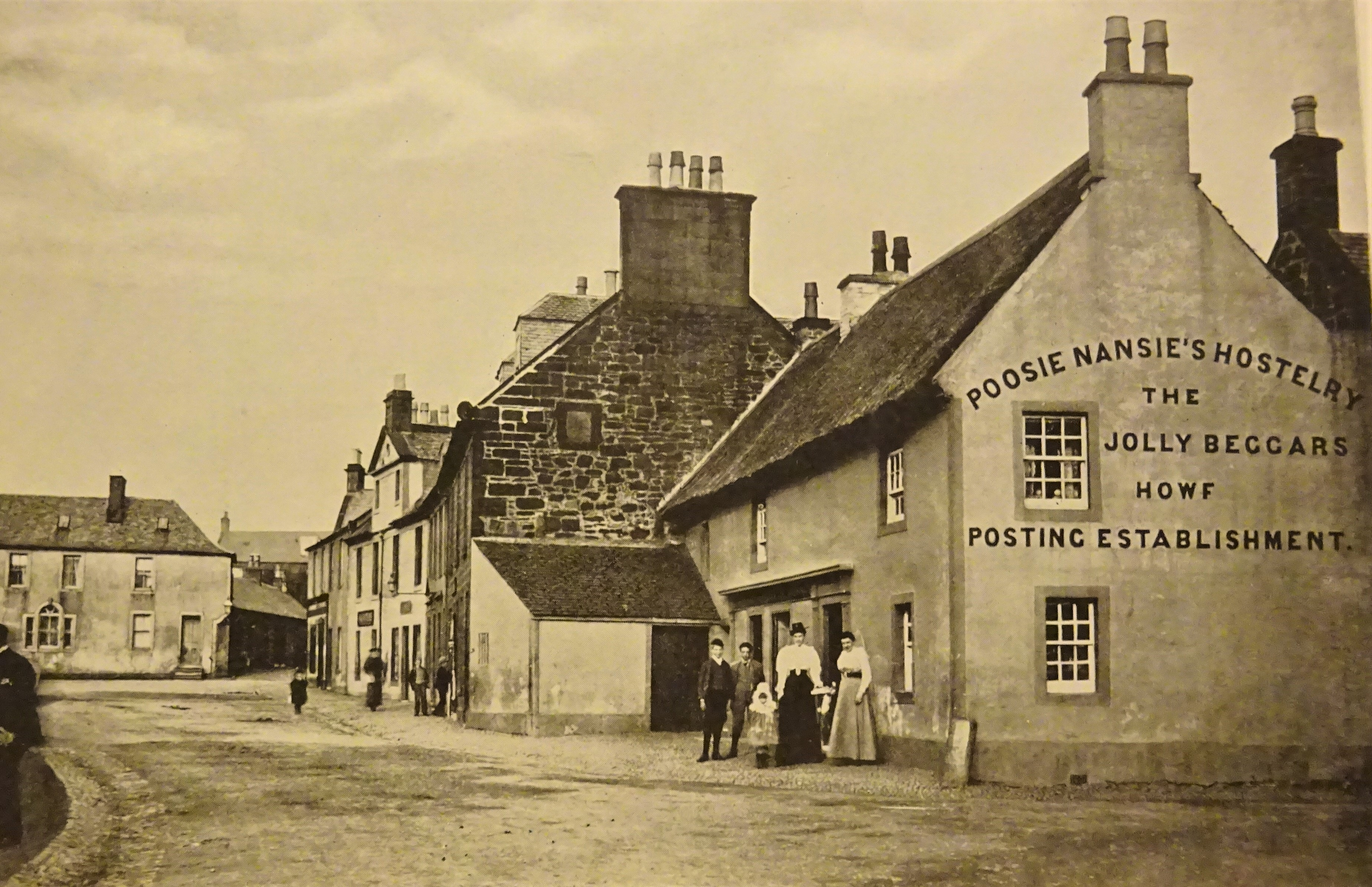 Mauchline in 1900. The old Loudoun town house is in the distance, now demolished. East Ayrshire.